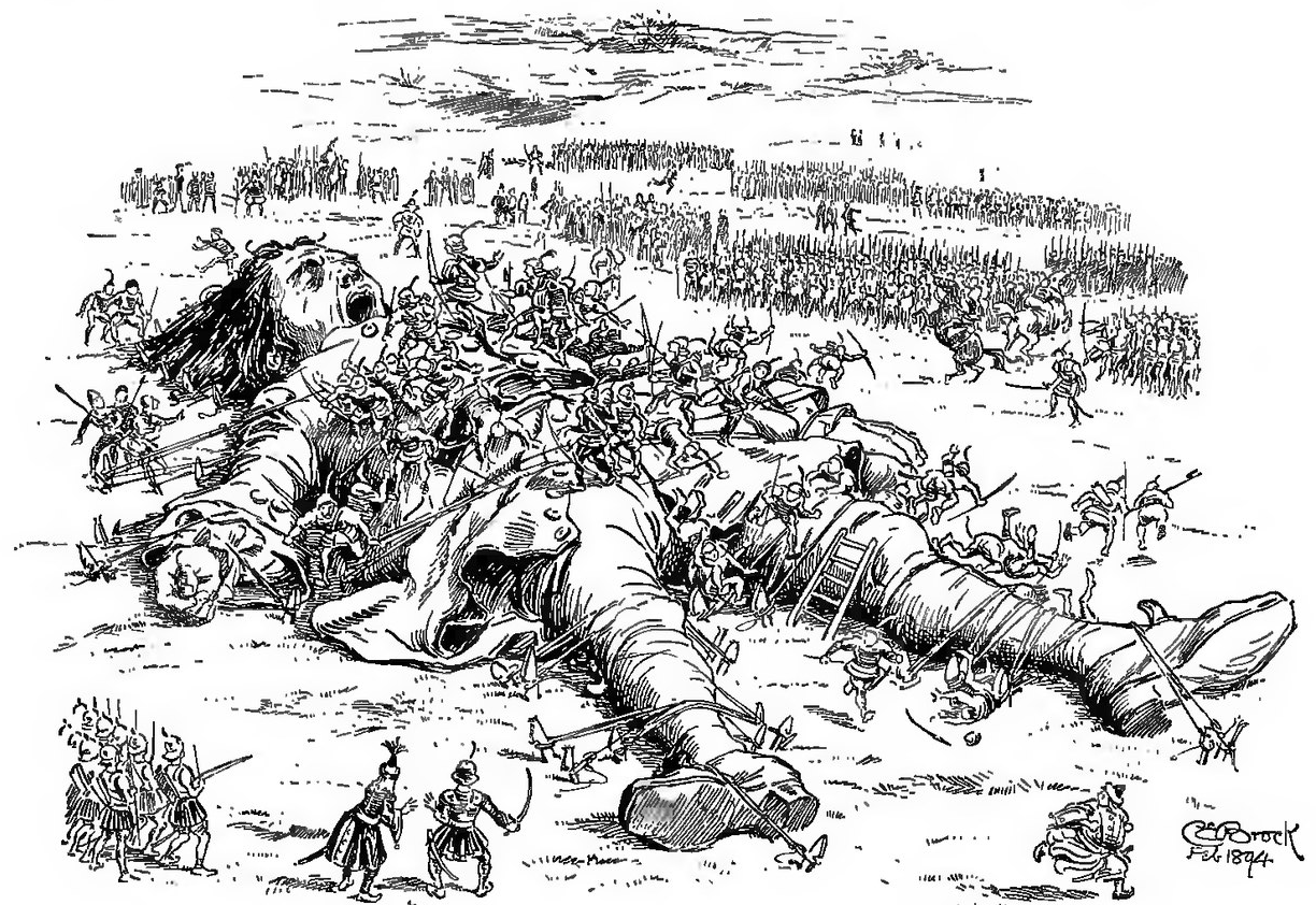 Lemuel Gulliver famously sprawled with Lilliputians.